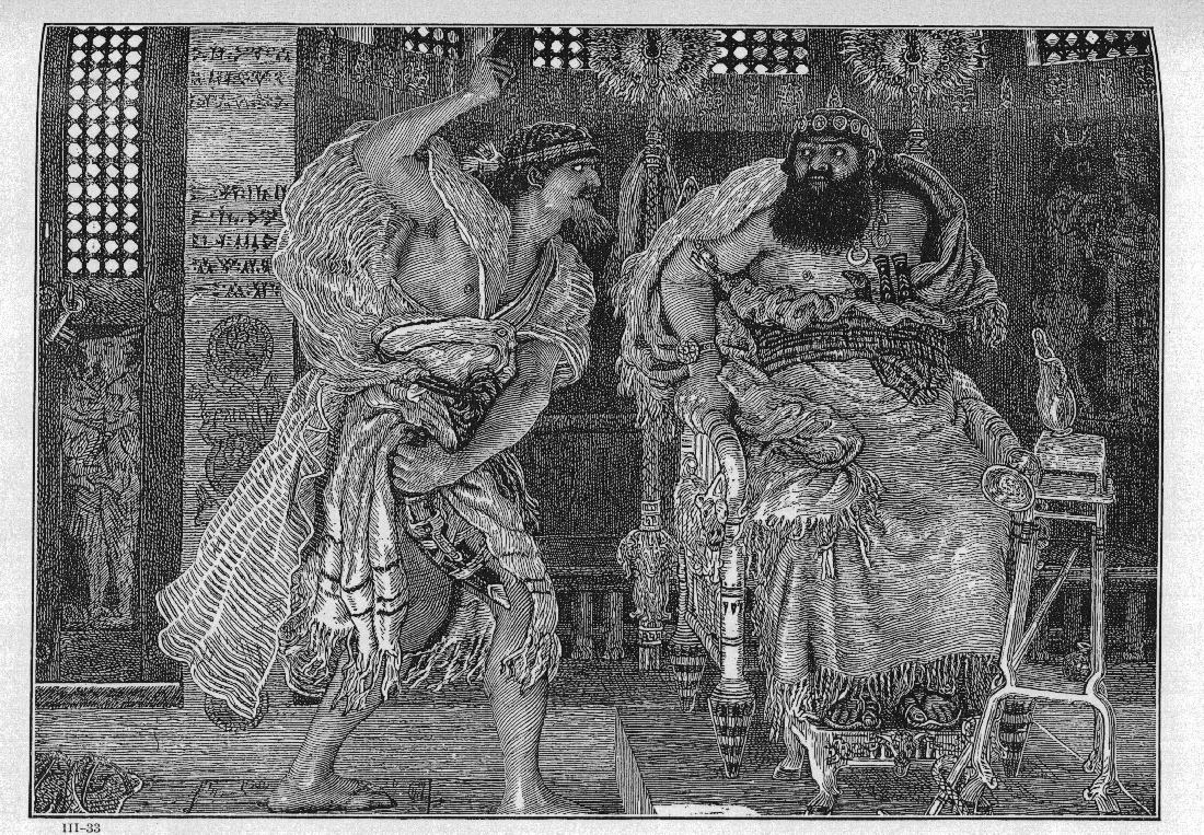 Illustration to The Holy Bible, Judges, chapter 3. Eglon assassinated by Ehud.